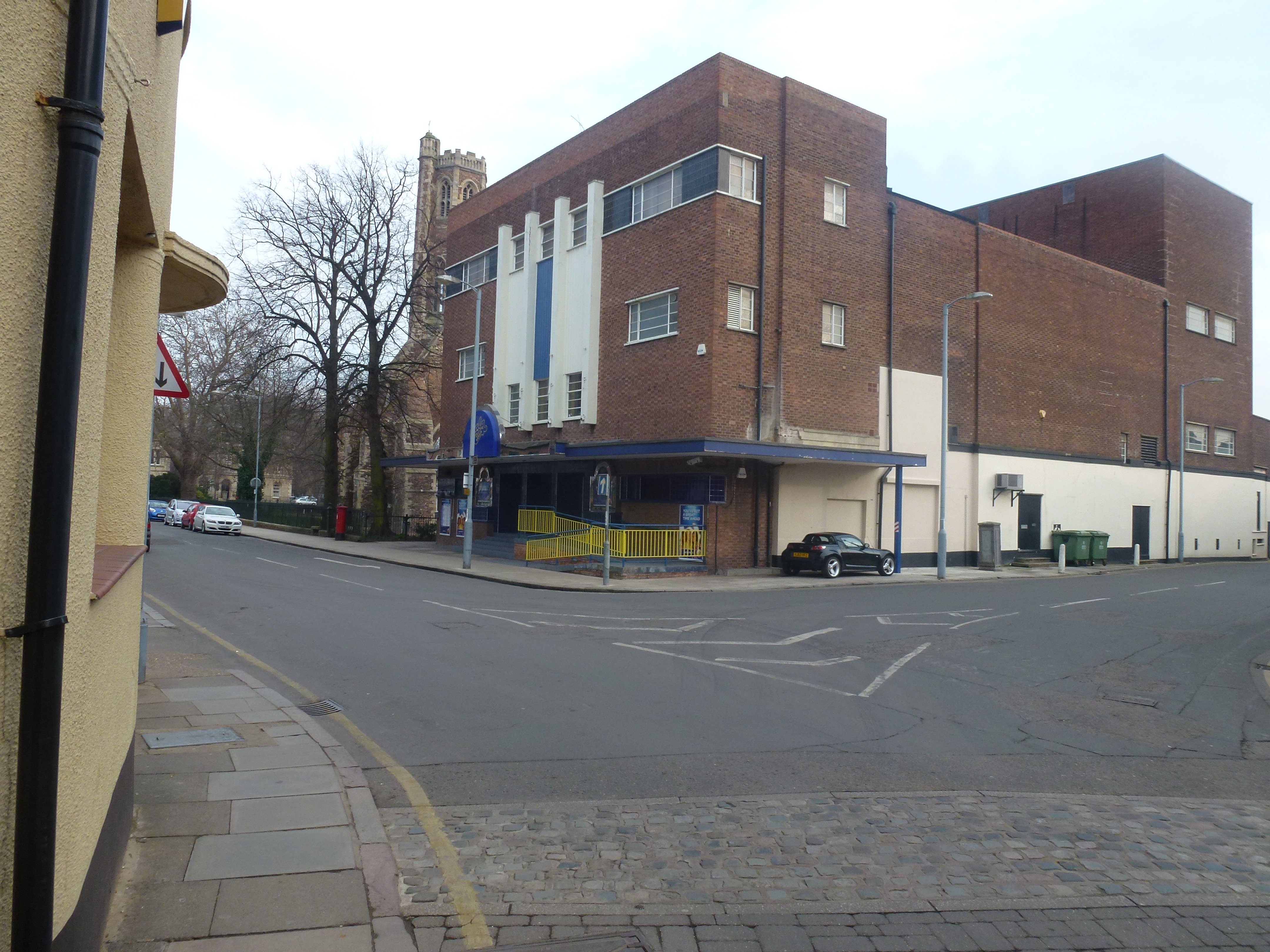 The Theatre Royal, now the home of gala bingo, Kings Lynn.